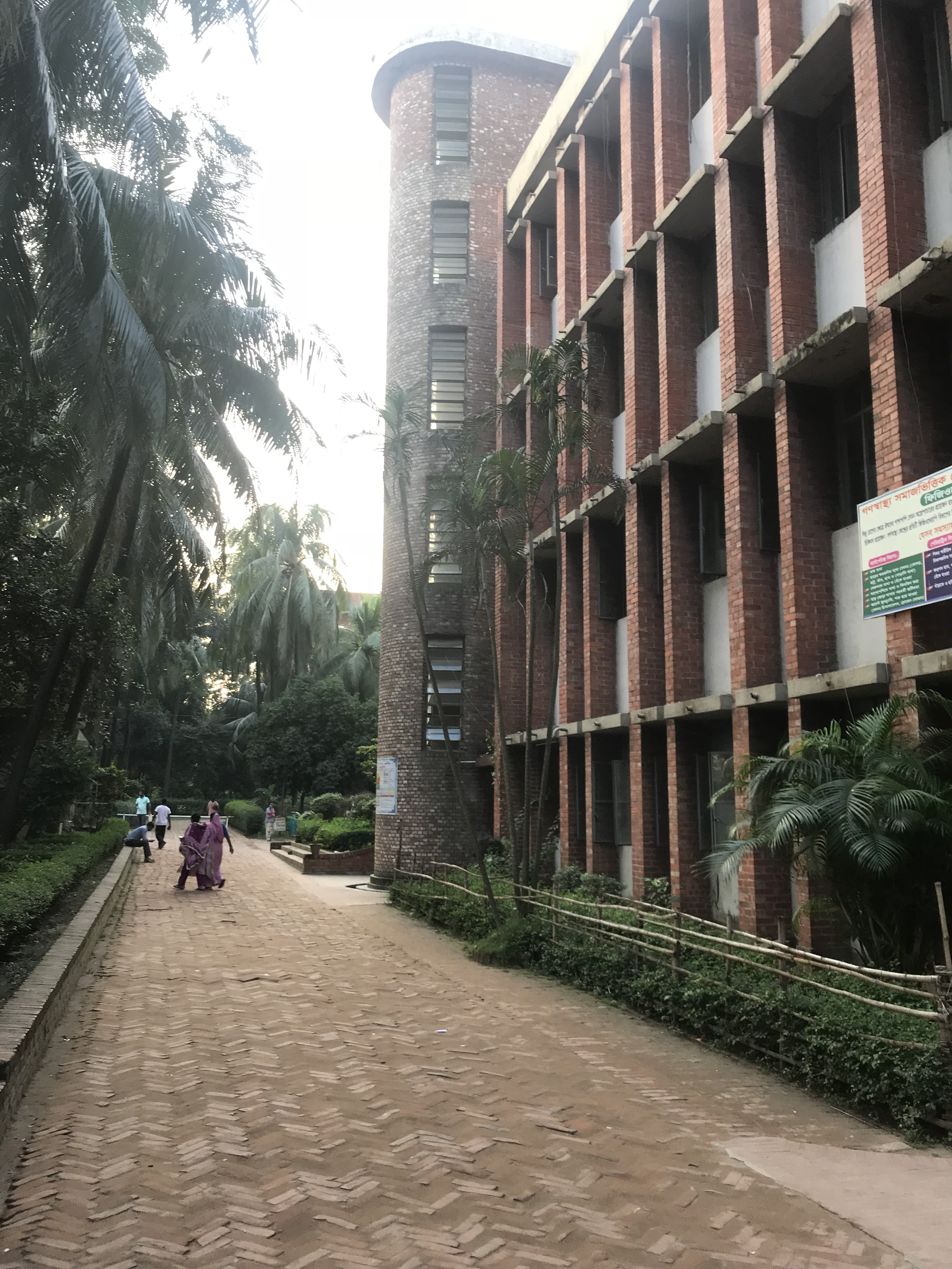 Gonoshasthaya Samaj Vittik Medical College is a private medical school in Bangladesh, established in 1998. It is located in Savar Upazila, in the Dhaka District .